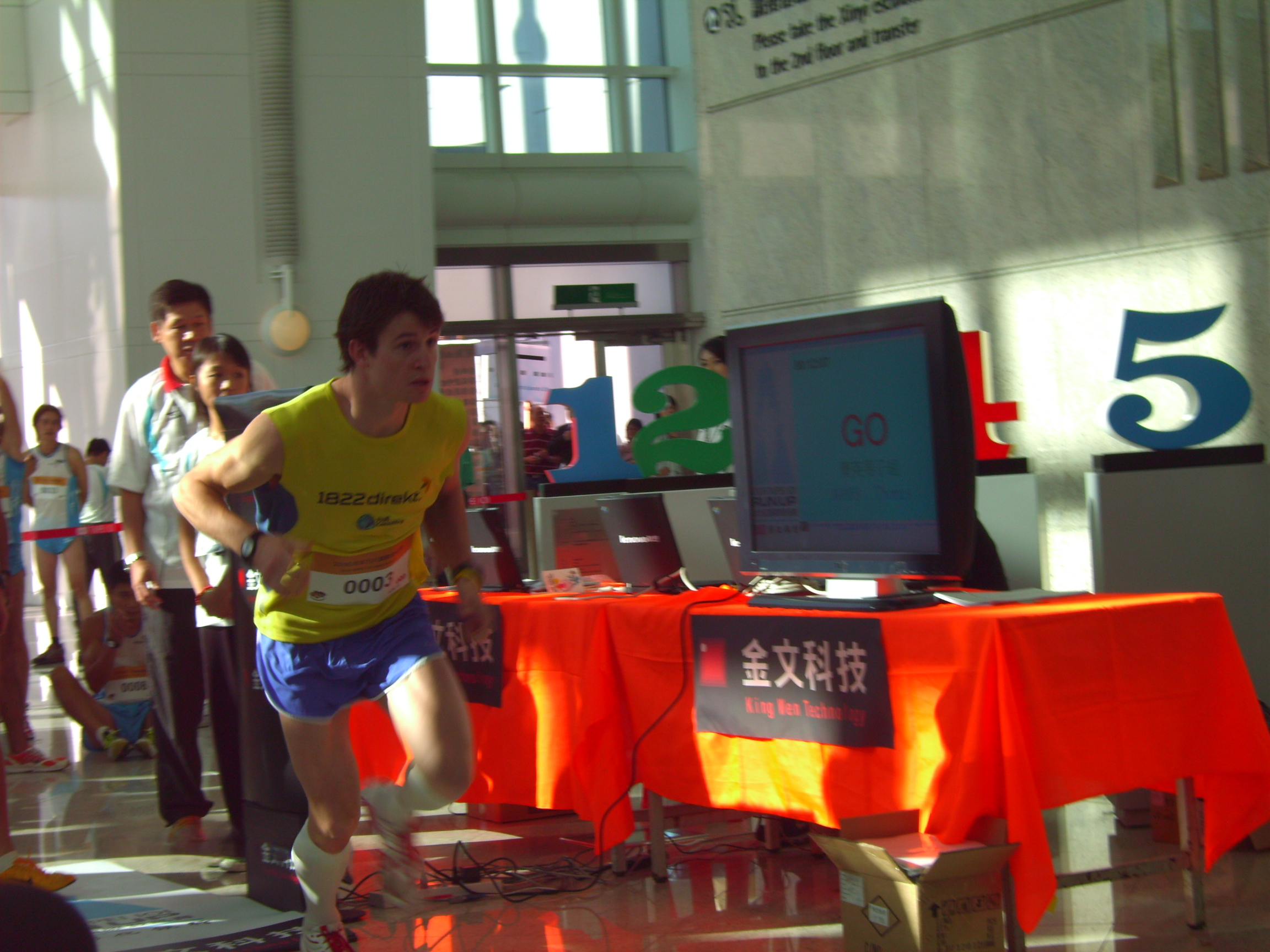 Thomas Dold starts his challenge at Taipei 101 Run Up.